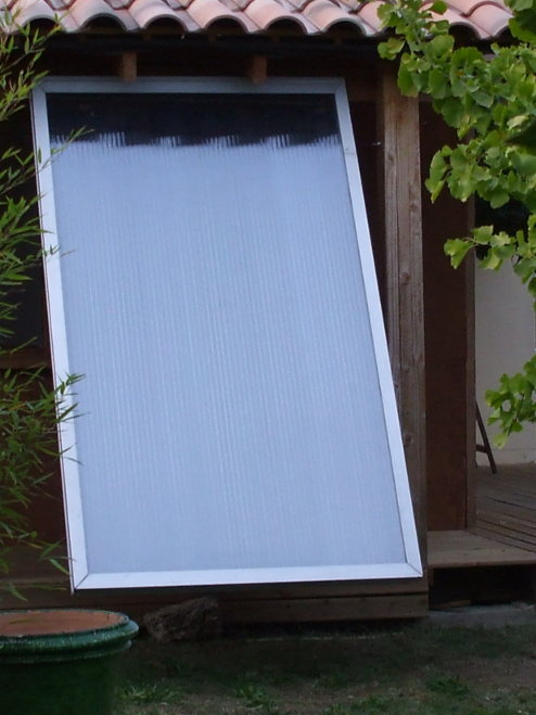 Autoconstruction: solar thermal panel for domestic hot water. Installation on facade. DIY